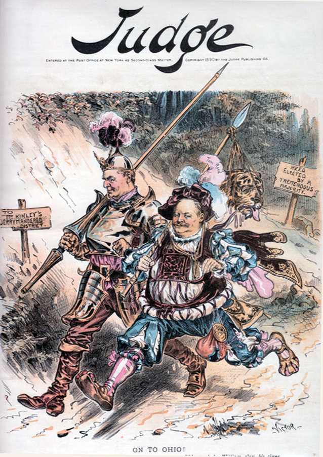 Cover of a September 1890 Judge magazine, showing Speaker Thomas B. Reed of Maine hurrying off with his Ways and Means chair, William McKinley, hoping (as it would prove, in vain) to save McKinley's seat after McKinley helped Reed keep his seat (Maine then voted in September). From McKinley Presidential Library, Canton OH